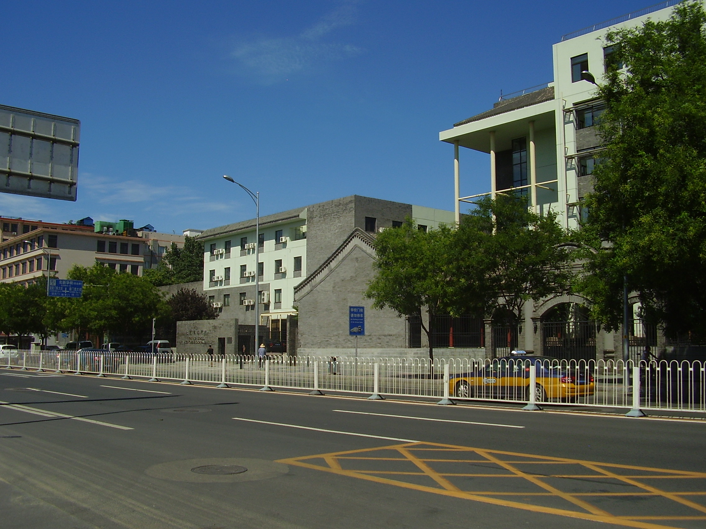 The High School Affiliated to Beijing Normal University - 100052, No.18 Nan Xin Hua Street , He Ping Men , Xicheng District, Beijing, PRC China.